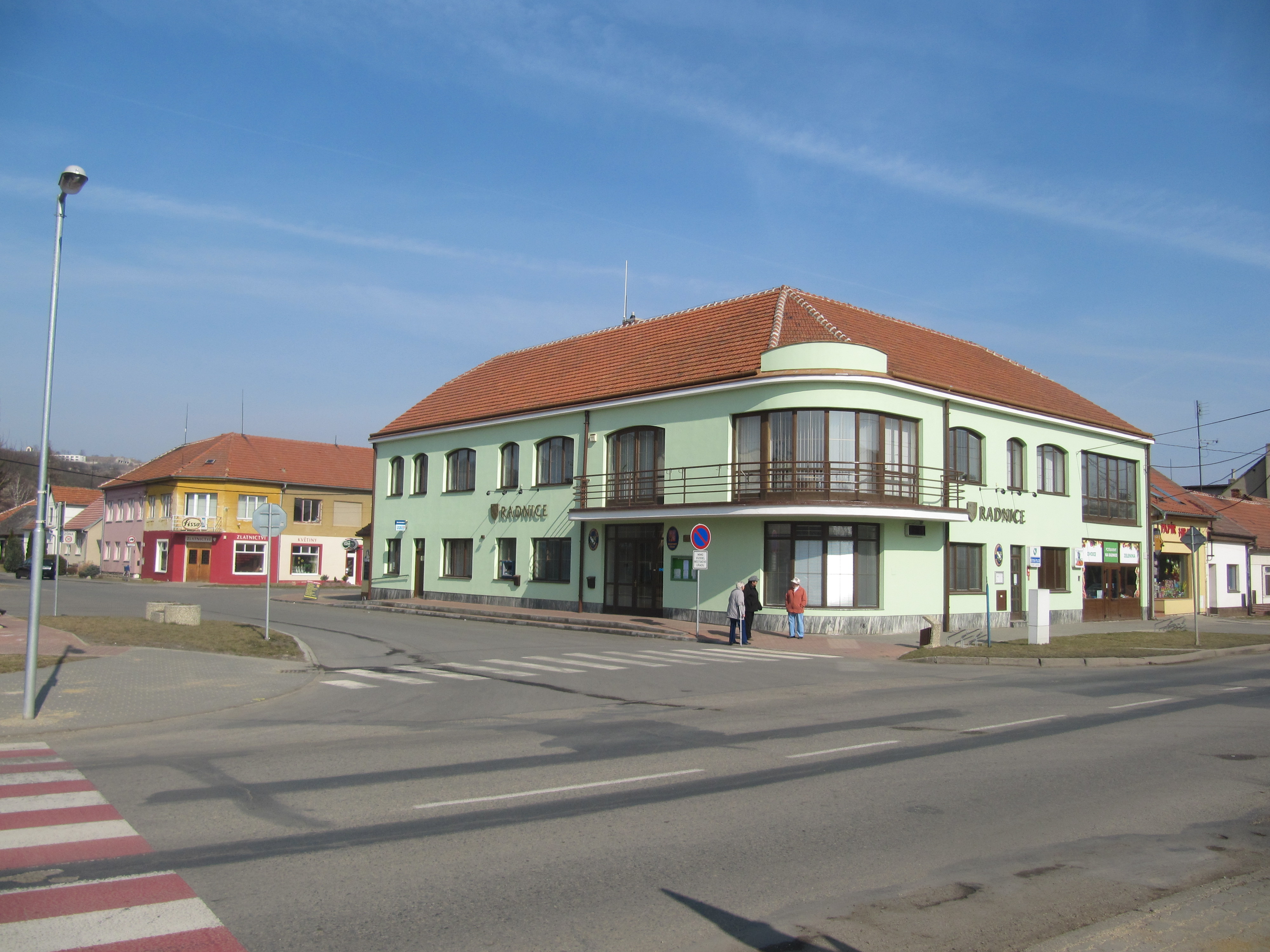 Újezd u Brna in Brno-Country District, Czech Republic. Town hall.